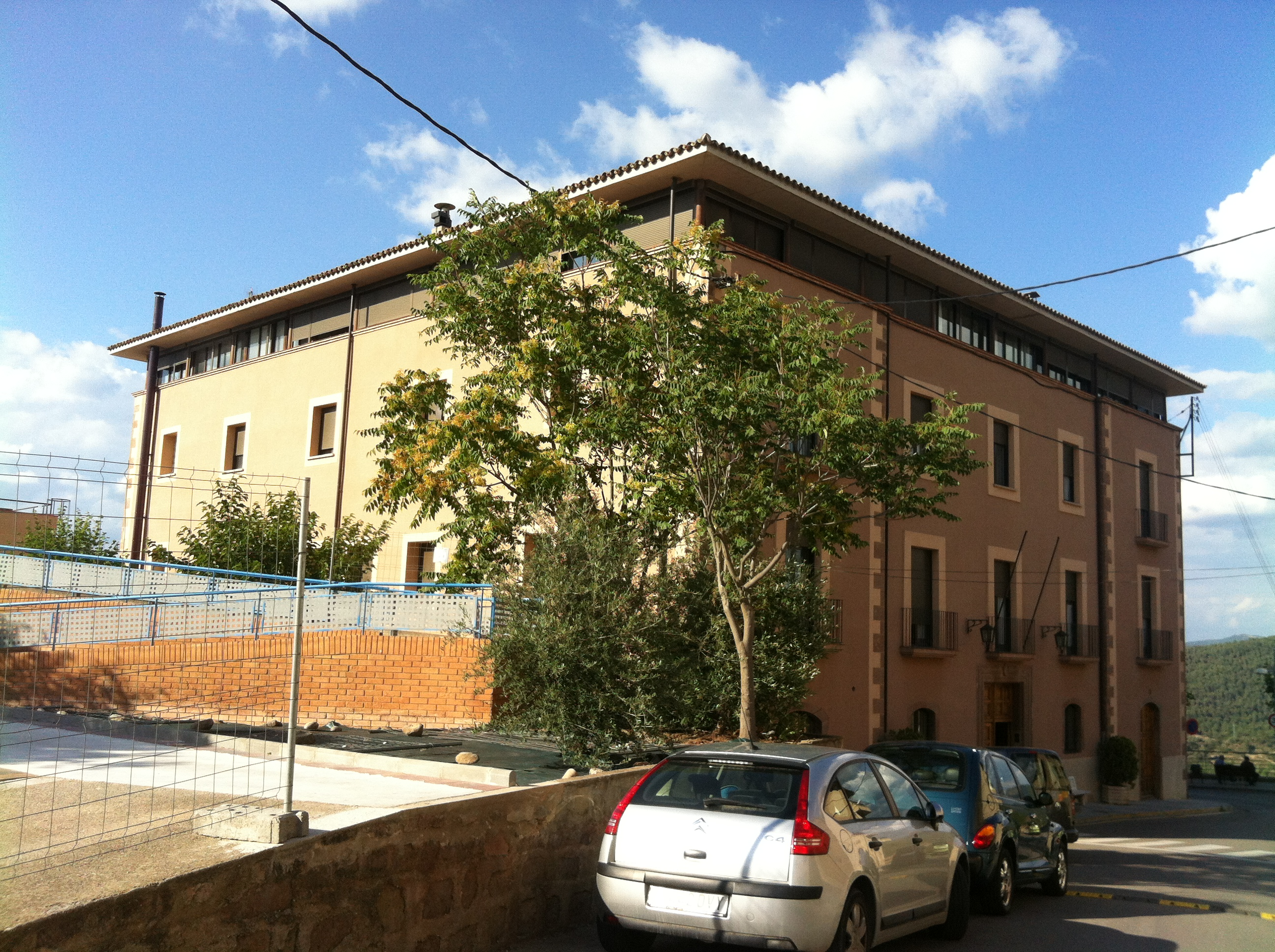 Wiki takes Cardona july 2014